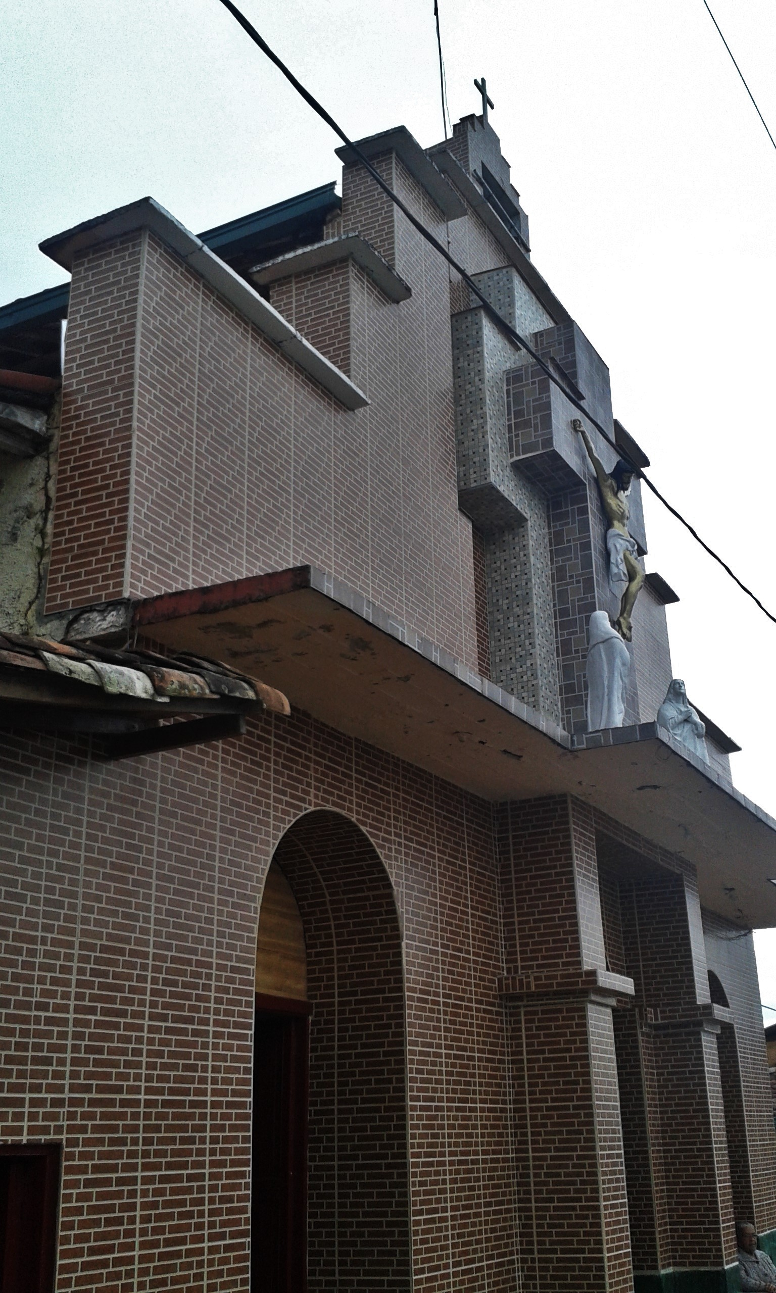 Detalle del templo parroquial de San Isidro, Santa Rosa de Osos